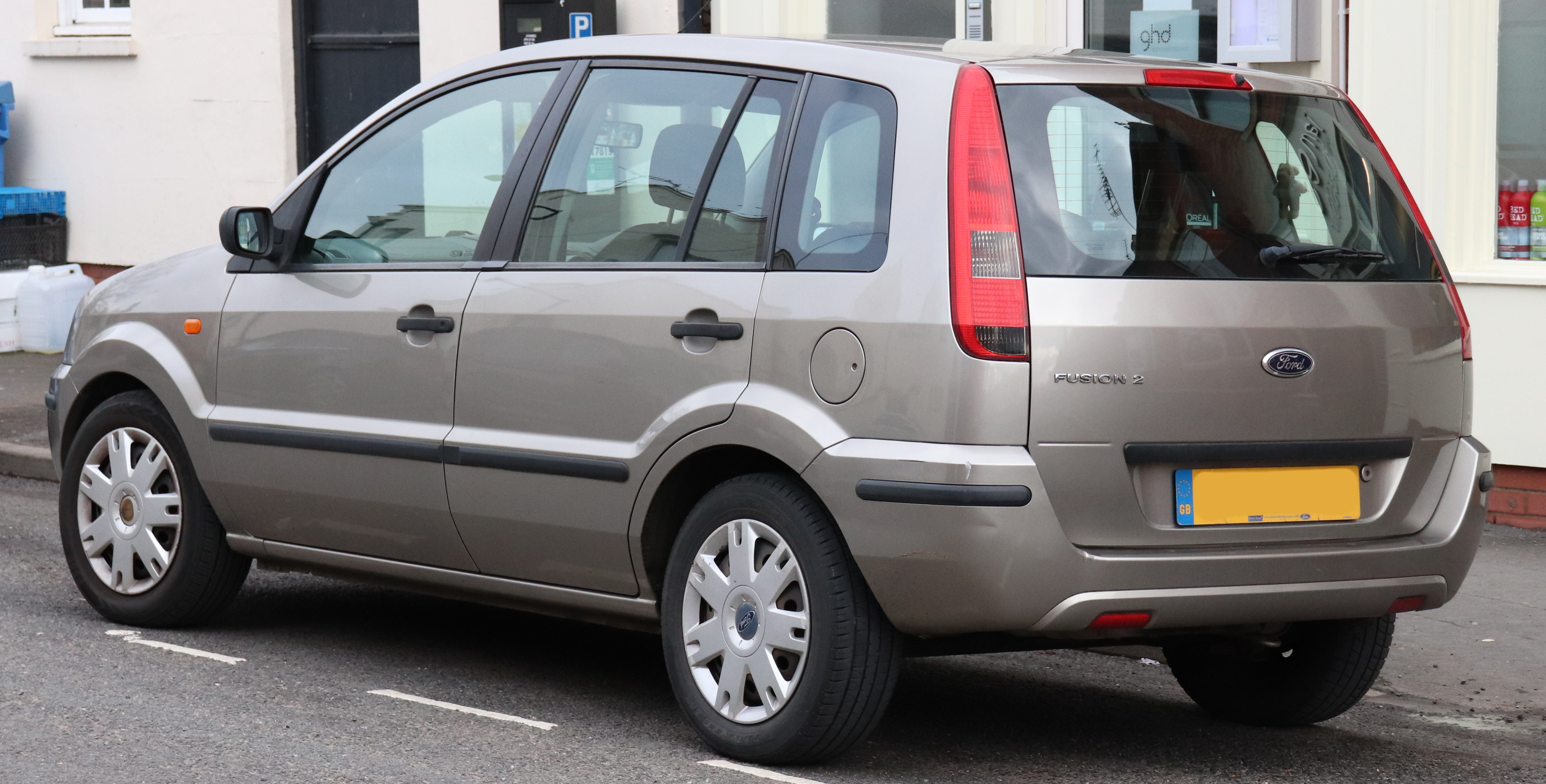 2003 Ford Fusion 2 Semi-Automatic 1.4 Rear Taken in Leamington Spa